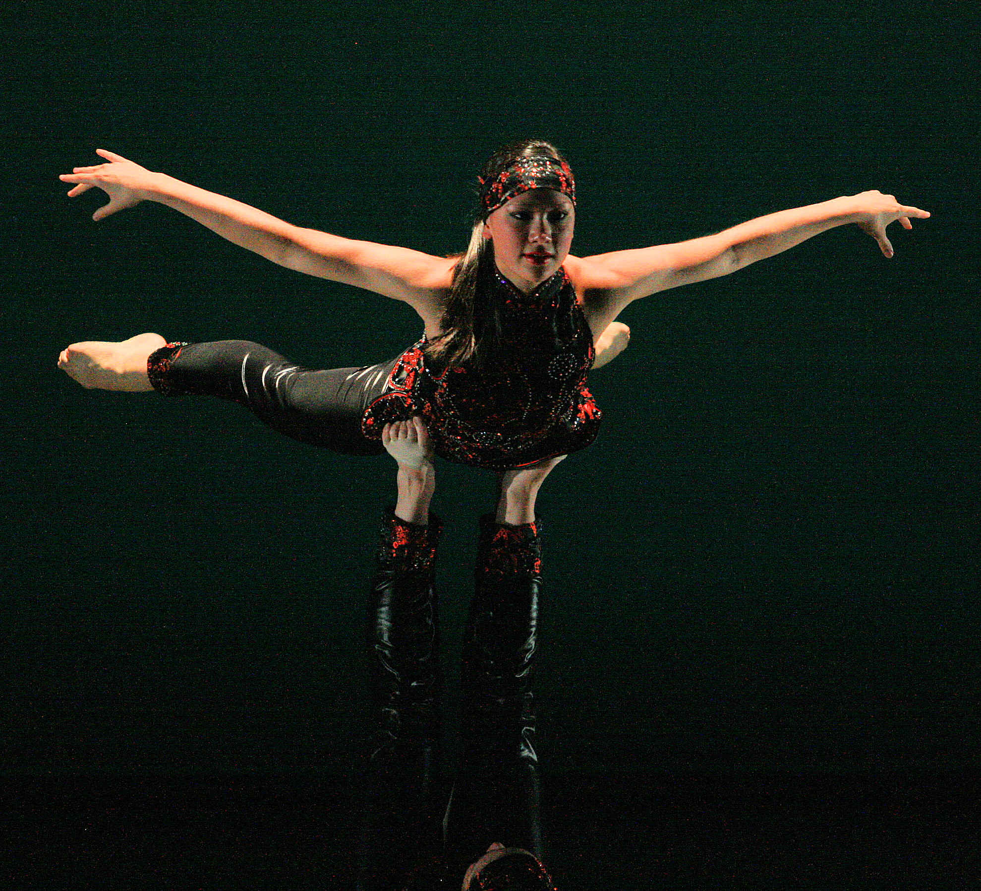 Acro dancers pause in an adagio swan pose (Daria L shown on top) during the course of a dance performance.